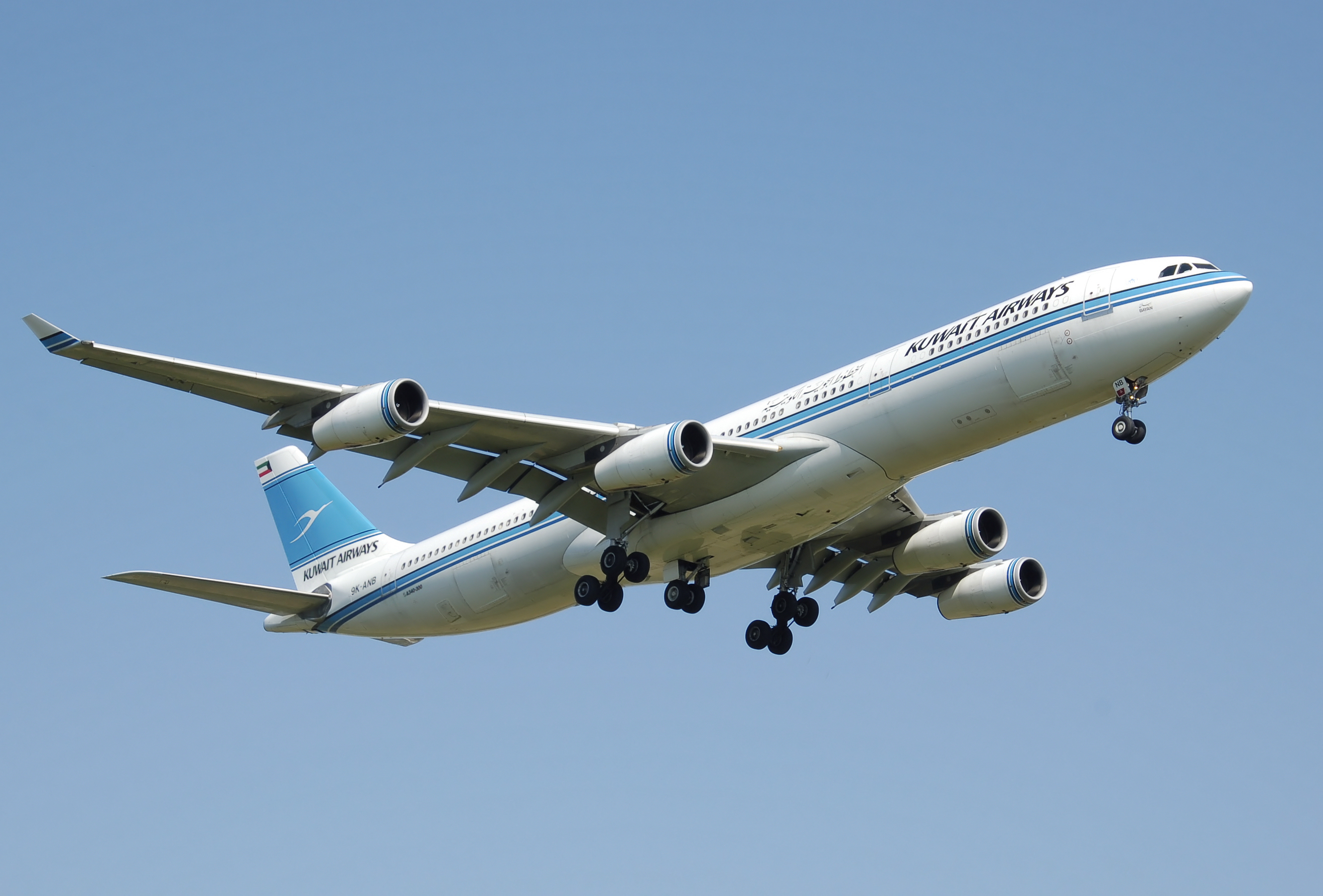 Kuwait Airways Airbus A340-300 (9K-ANB) lands at London Heathrow Airport, England.